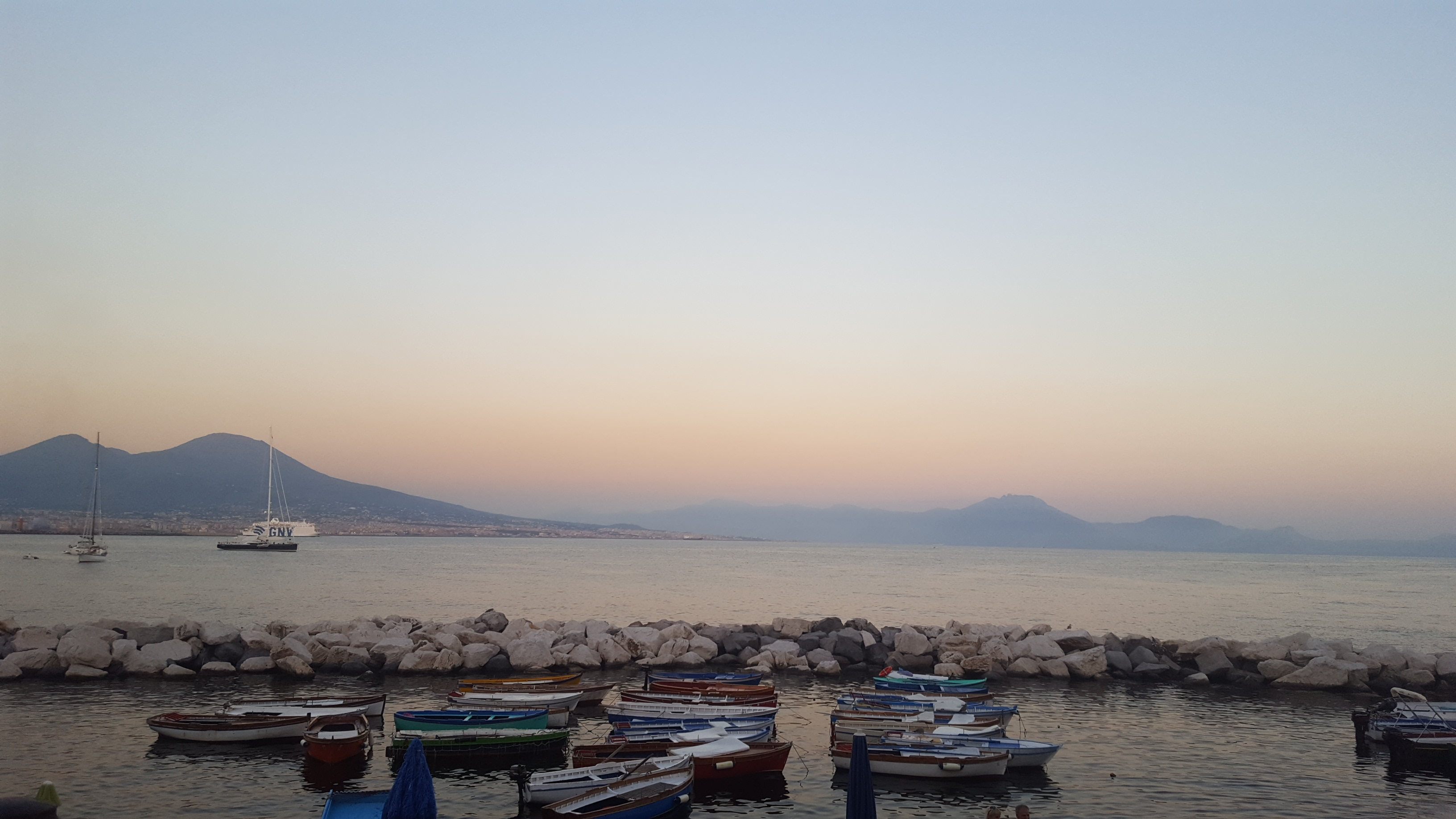 This image was taken on 13 July 2018 8:30 pm (7:30 pm local standard/solar time) in Naples, Italy. It shows a sunset overlooking the active volcano, Mount Vesuvius.